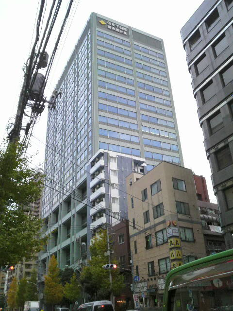 sumitomokourakuenn